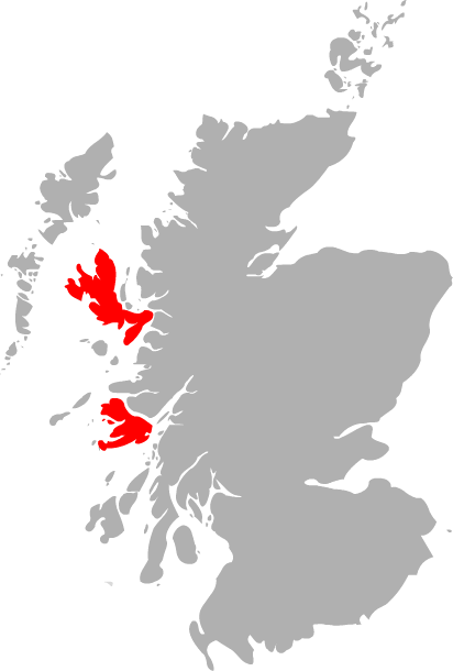 Indicator map showing a section of Munro's tables of Scottish peaks